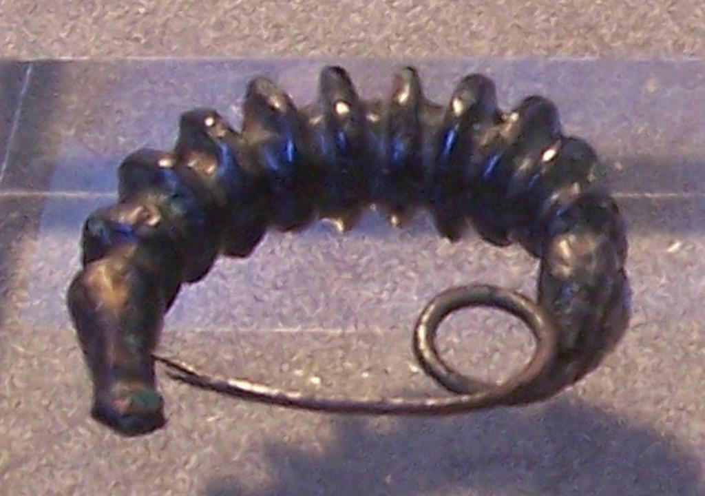 Fibula found in Rogno, Val Camonica